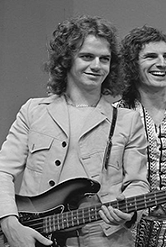 Cropped image taken from the original, Slade - TopPop 1973 19.png, to focus on Jim Lea.